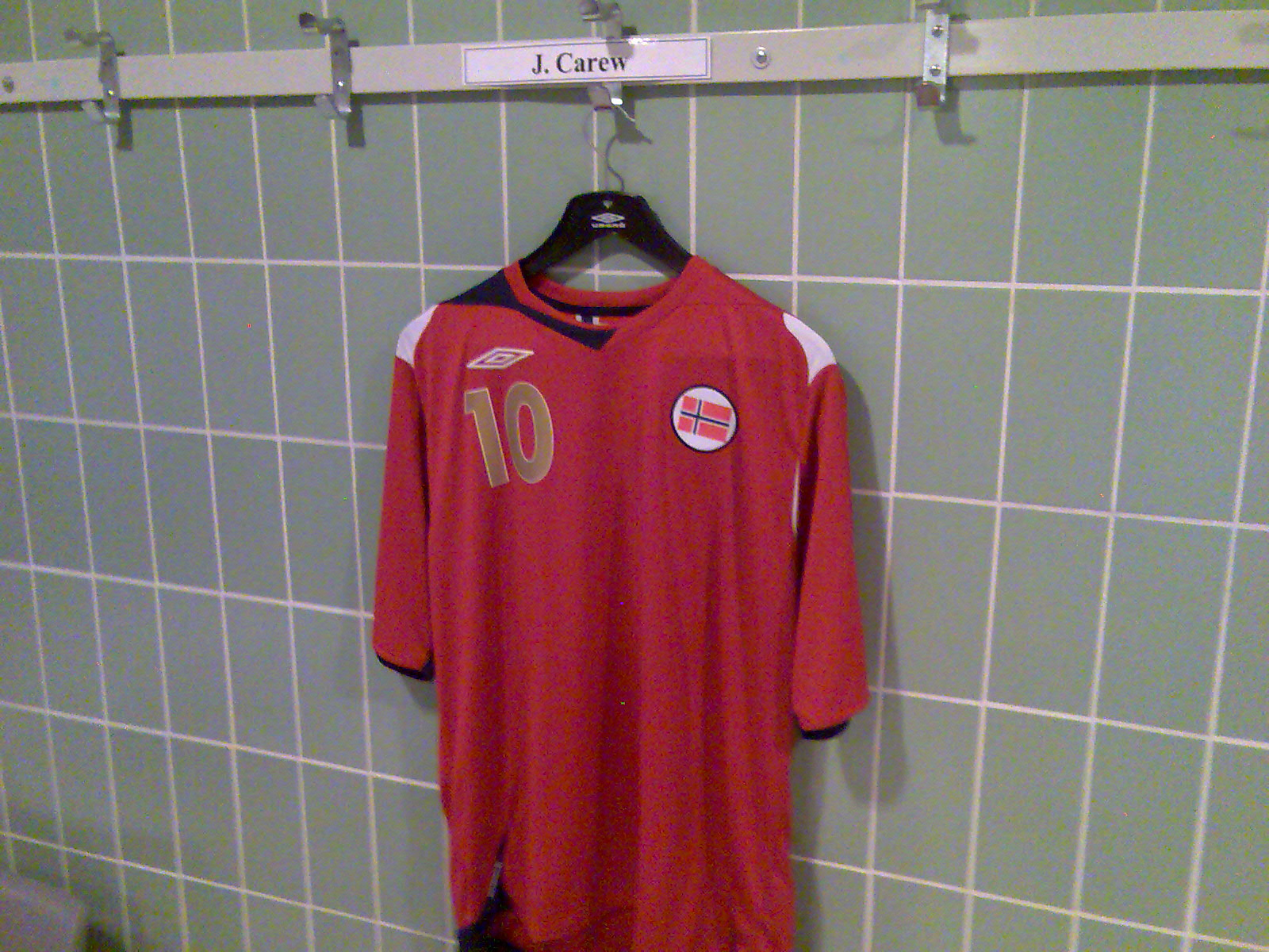 John Carew's kit at the Norwegian national team. From the dressing room at Ullevaal Stadion